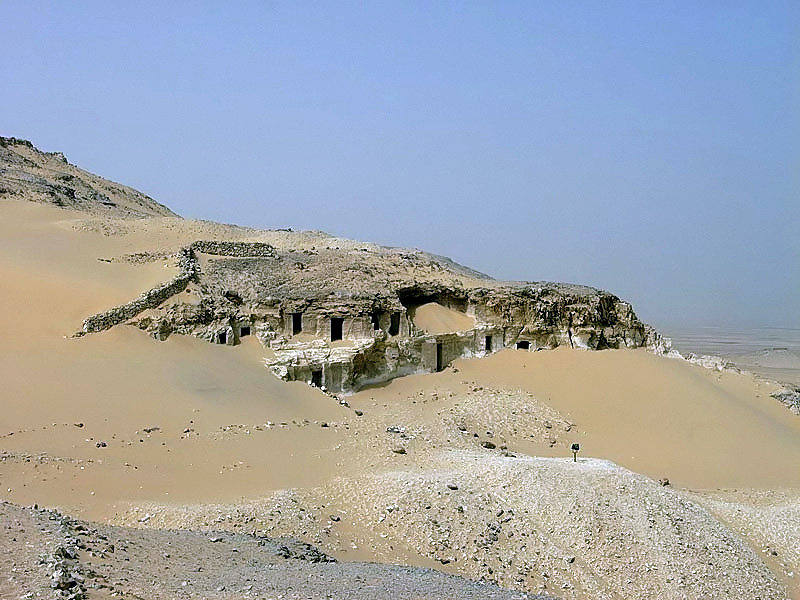 Meir, A-Group Tombs, Egypt